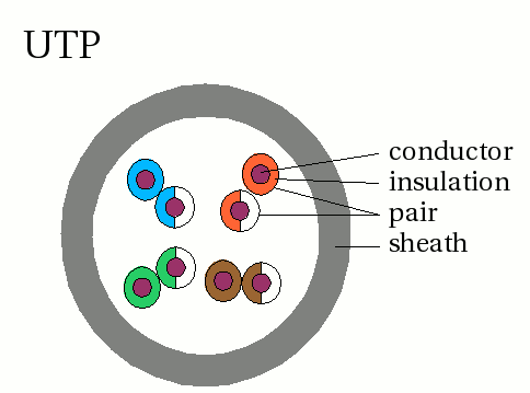 Diagram of an unshielded twisted pair cable, cross section